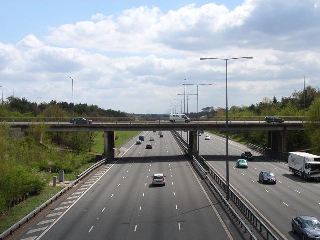 M40, Beaconsfield At Junction 2, from the western part of the roundabout above.